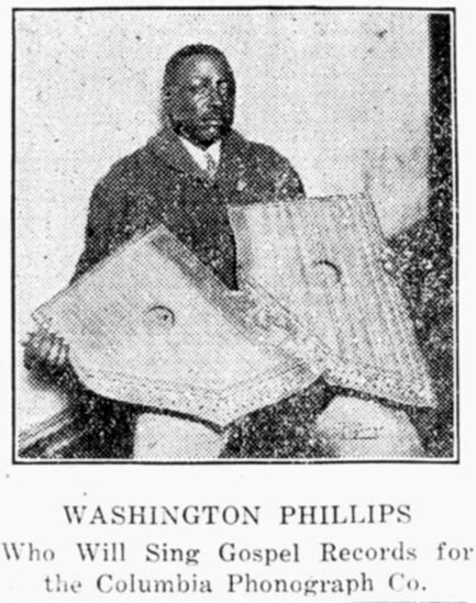 American gospel singer and musician Washington Phillips (1880-1954) with two zithers.